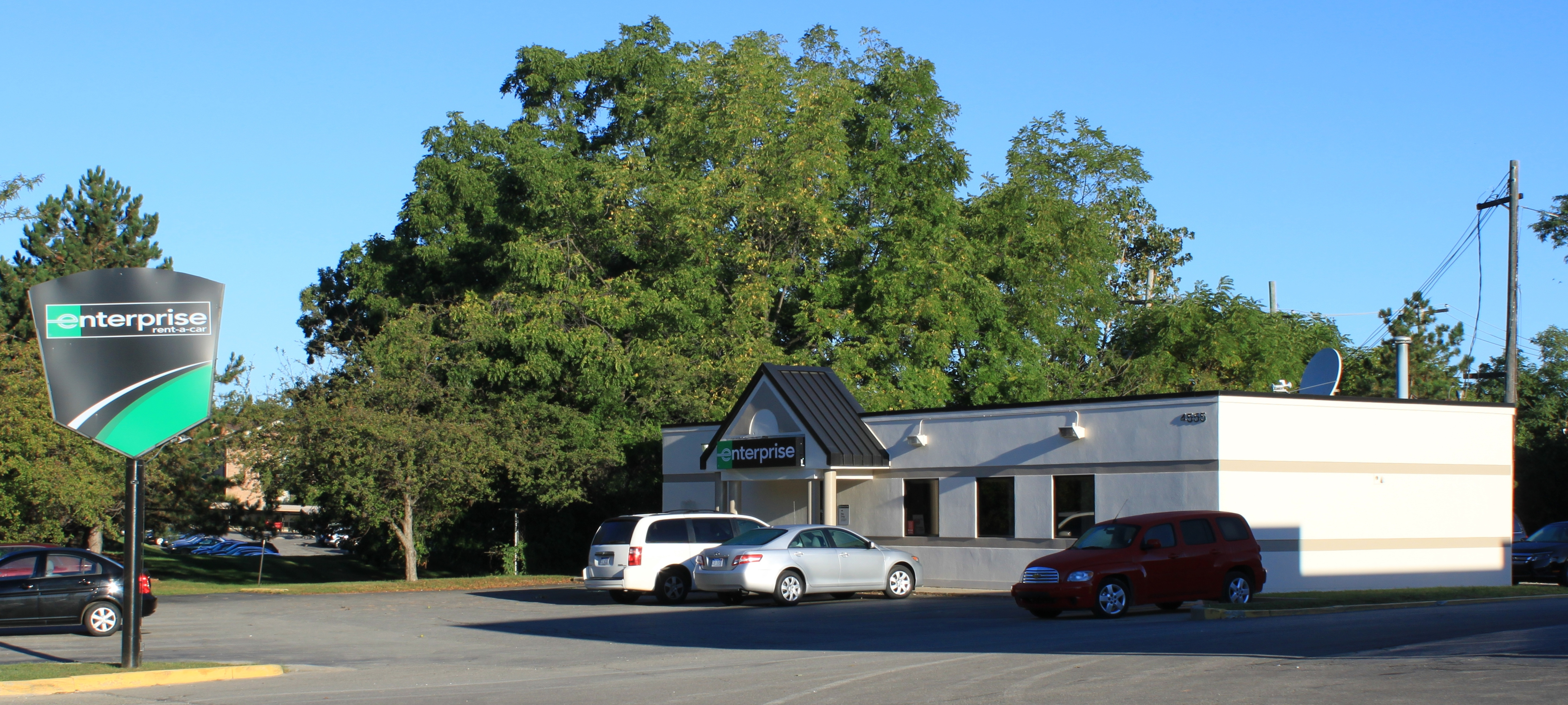 Enterprise Rent-A-Car, 4555 Washtenaw Ave., Ann Arbor, Michigan